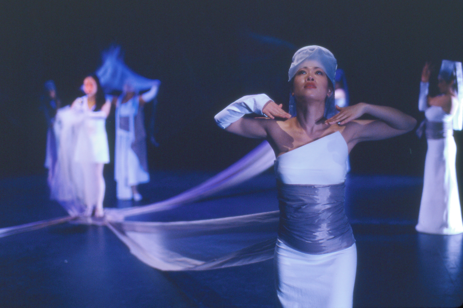 A photograph from Yara Arts Group's "Circle" (1999)